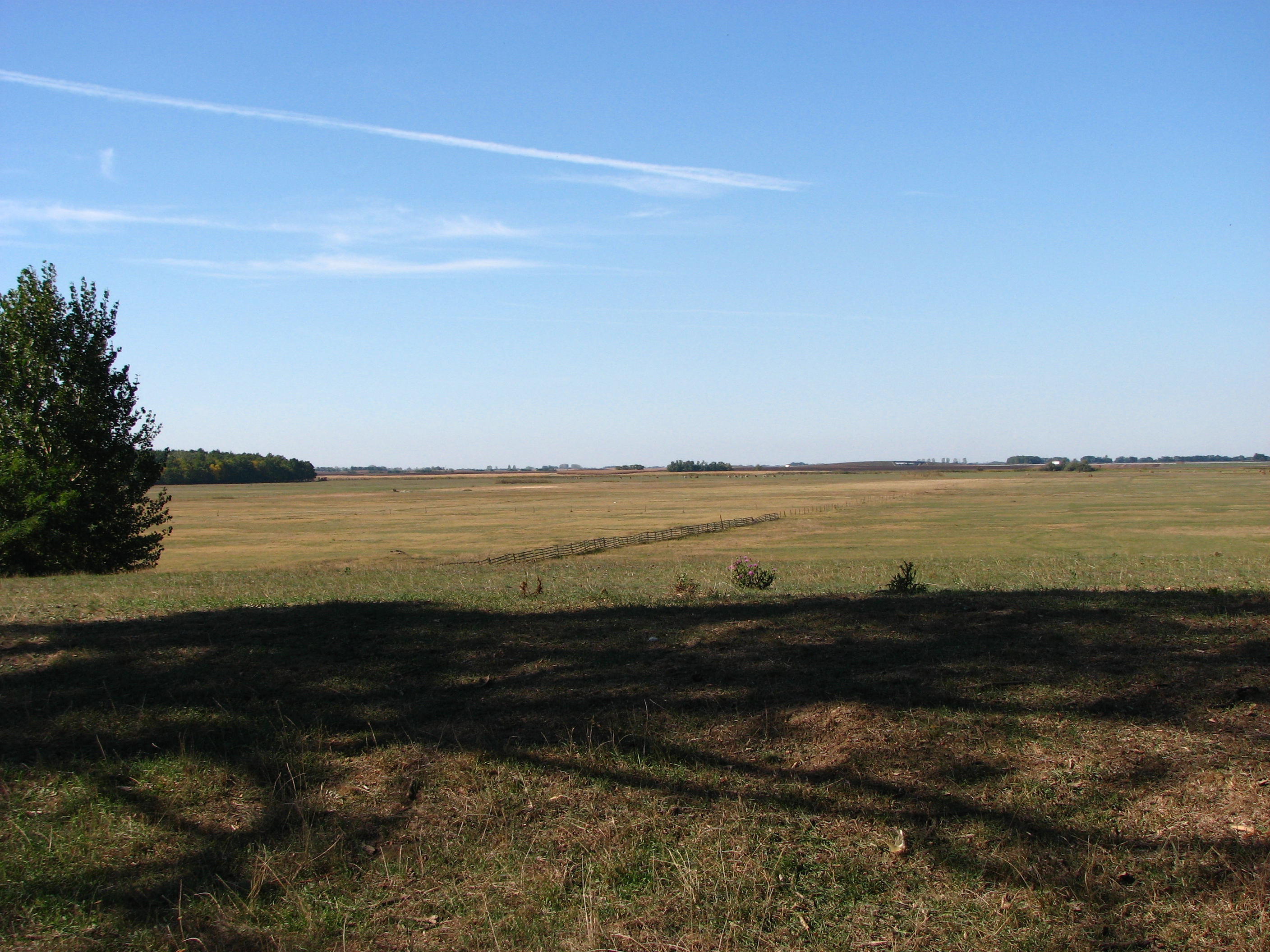 The Hungarian Great Plain's view at Hajdúdorog. The picture was taken on the Northern part of the town's territory that belongs to the Hortobágy National Park. Locally this part of the town is called Nagylapos that means Great Flatness.